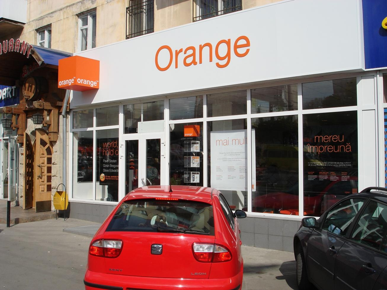 Orange Moldova Shop